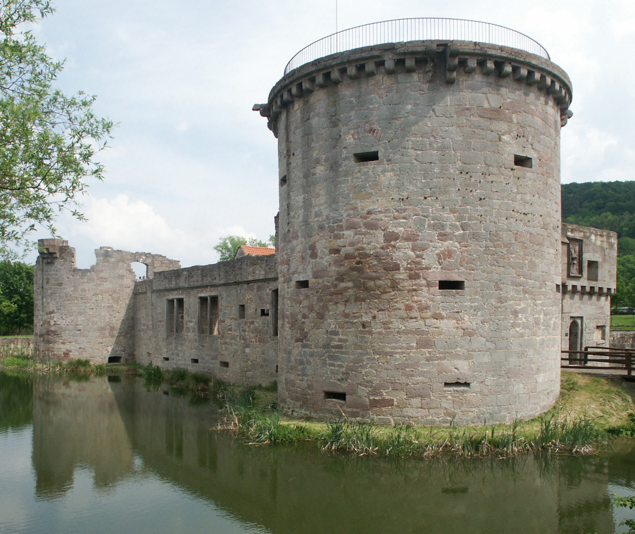 big Tower of Castle Friedewald